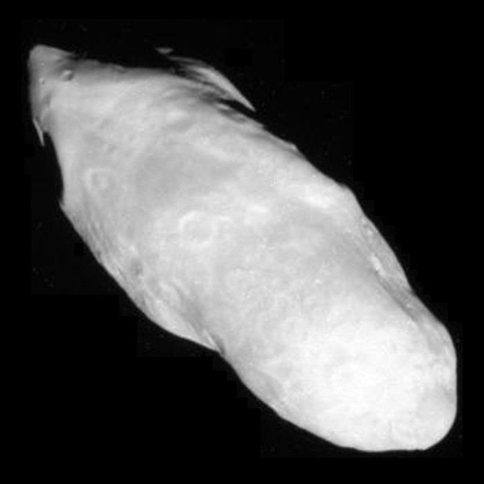 This raw, unprocessed image of Prometheus was taken by Cassini on Dec. 26, 2009. The image was taken in visible light with the Cassini spacecraft narrow-angle camera on Dec. 26, 2009 at a distance of approximately 59,000 kilometers (36,000 miles) from Prometheus and at a Sun-Prometheus-spacecraft, or phase, angle of 19 degrees. Image scale is 351 meters (1,150 feet) per pixel. The Cassini Equinox Mission is a joint United States and European endeavor. The Jet Propulsion Laboratory, a division of the California Institute of Technology in Pasadena, manages the mission for NASA's Science Mission Directorate, Washington, D.C. The Cassini orbiter was designed, developed and assembled at JPL. The imaging team consists of scientists from the US, England, France, and Germany. The imaging operations center and team lead (Dr. C. Porco) are based at the Space Science Institute in Boulder, Colo. For more information about the Cassini Equinox Mission visit and The original NASA image has been modified by cropping, doubling the linear pixel density, reducing brightness, and removal of some cosmic ray artifacts.